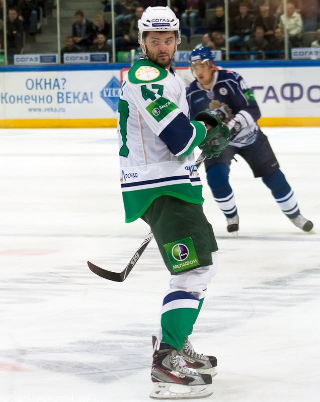 Alexander Radulov in a KHL game Amur Khabarovsk vs. Salavat Yulaev Ufa on September 24, 2011.